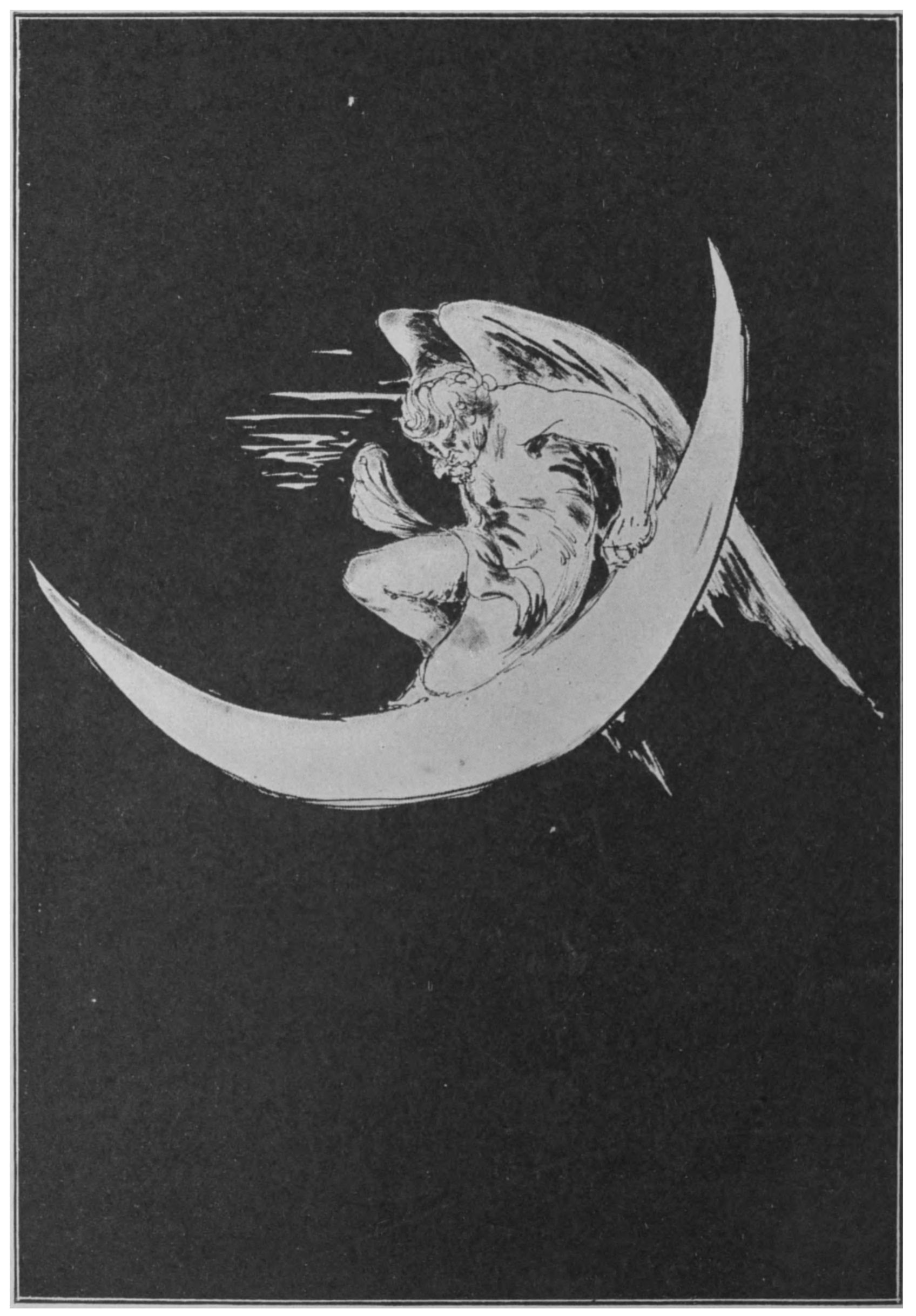 Icaromenippus.